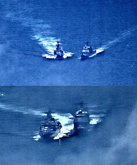 PHILIPPINE SEA (June 7, 2019) The U.S. Navy cruiser USS Chancellorsville (CG 62), right, is forced to maneuver to avoid collision from the approaching Russian destroyer Admiral Vinogradov (DD 572), closing to approximately 50–100 feet putting the safety of her crew and ship at risk. (U.S. Navy photo/Released)